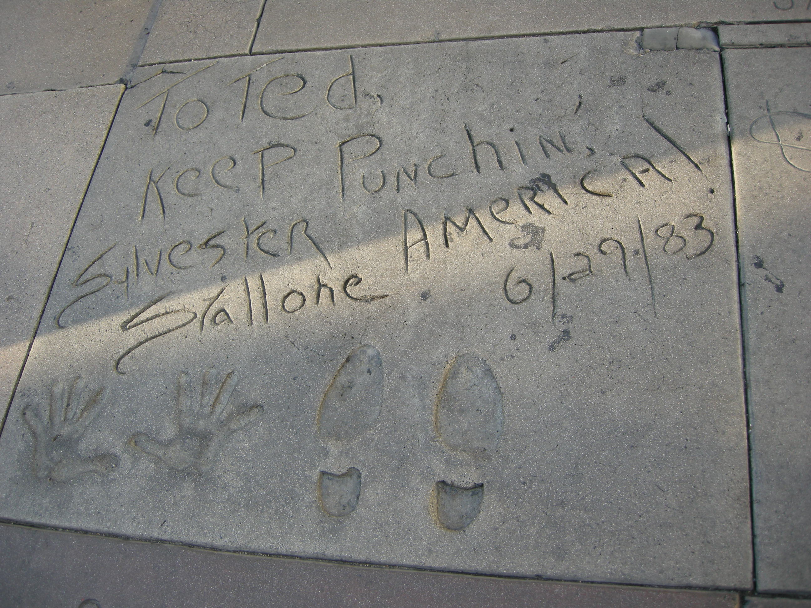 Grauman's Chinese Theatre, Sylvester Stallone